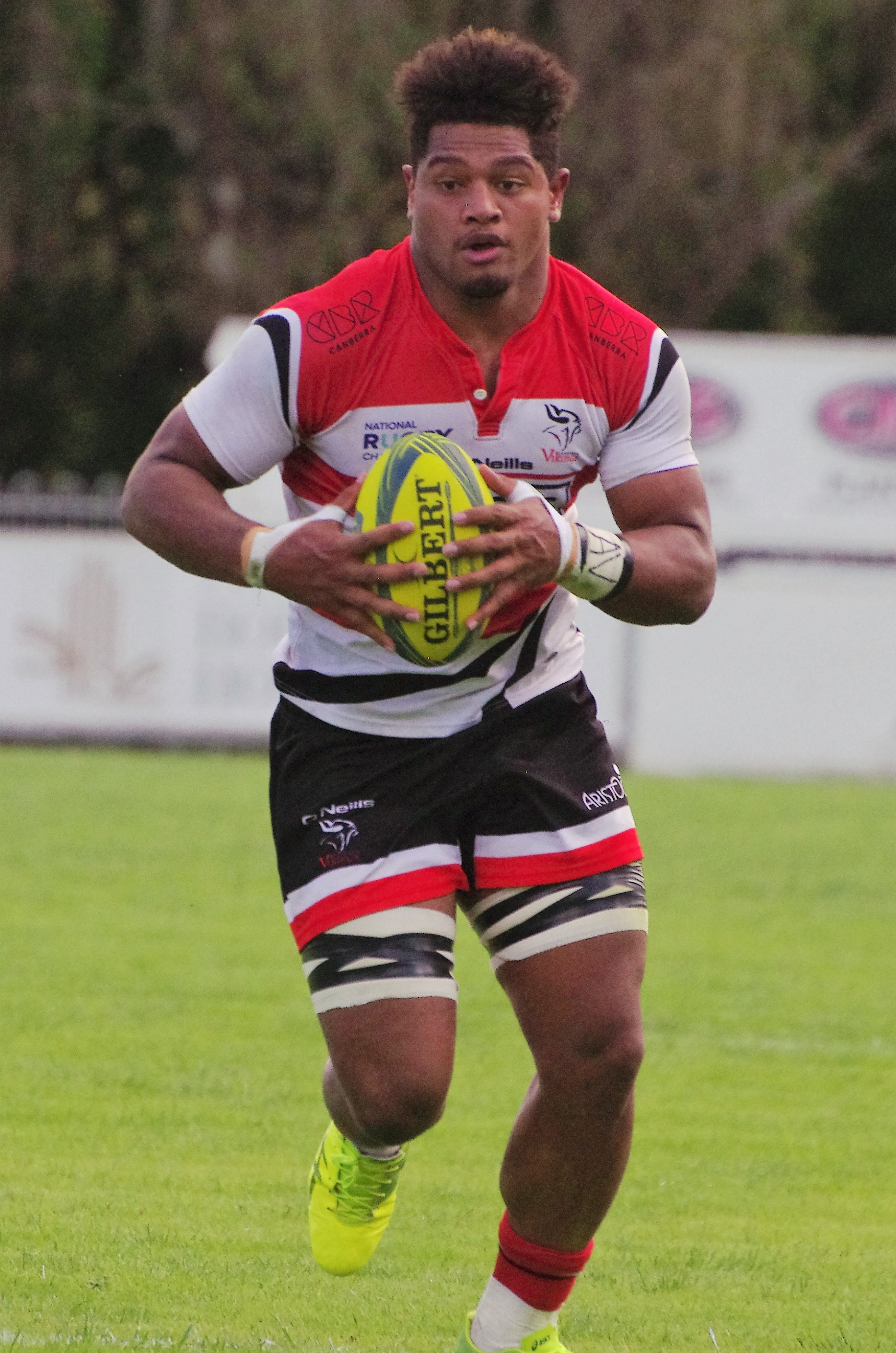 Rob Valetini playing for Canberra Vikings against the Greater Sydney Rams in the 2017 National Rugby Championship at T G Millner Field.